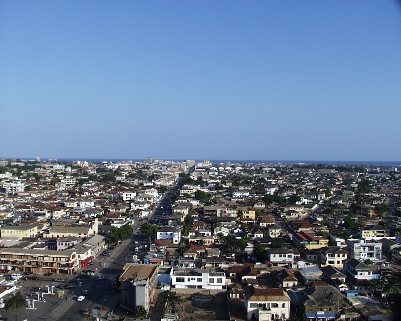 Skyline of Accra (en)